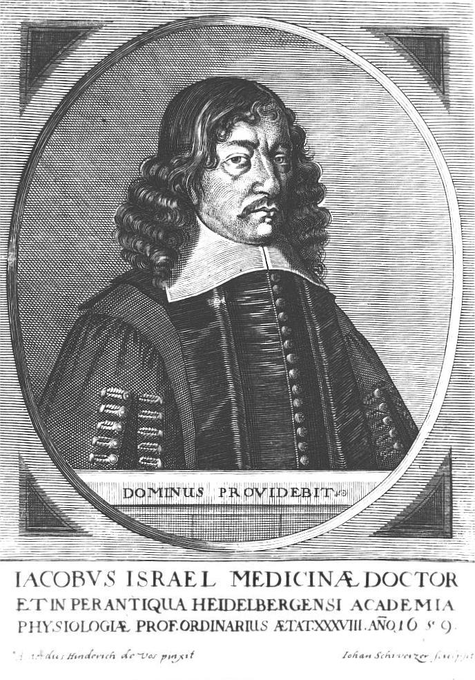 Portrait of Jacob Israel (1621-1674), Physician and professor at Heidelberg University, Engraving by A. Hinderich / J. Schweizer